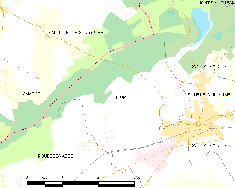 Map of French municipality